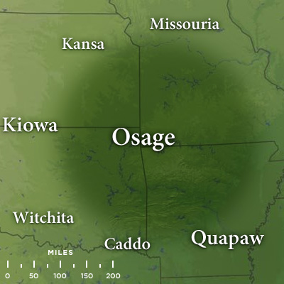 A regional map showing the extent of traditional Osage Nation lands by the late 17th century superimposed upon the current states of Arkansas, Kansas, Missouri, and Oklahoma.